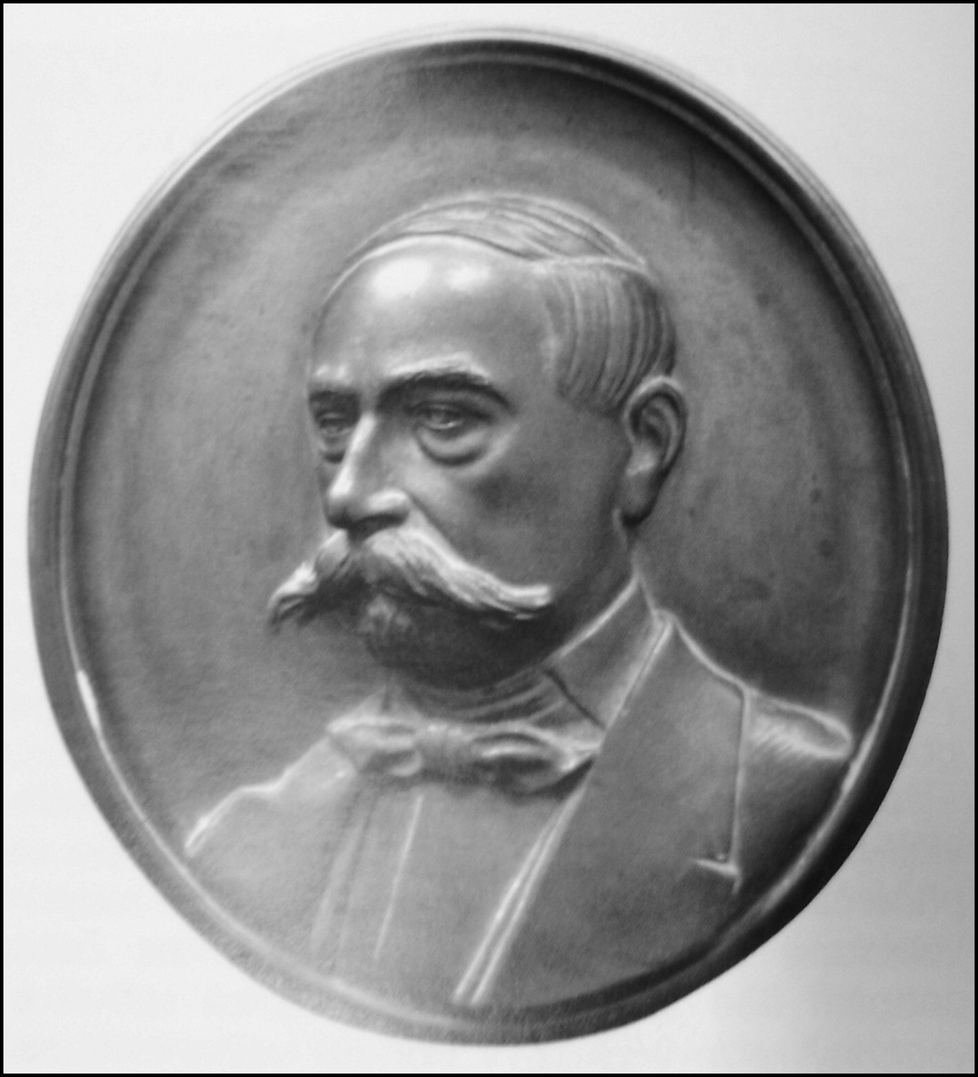 Jan Mundy (Drnovice, Czech Republic)